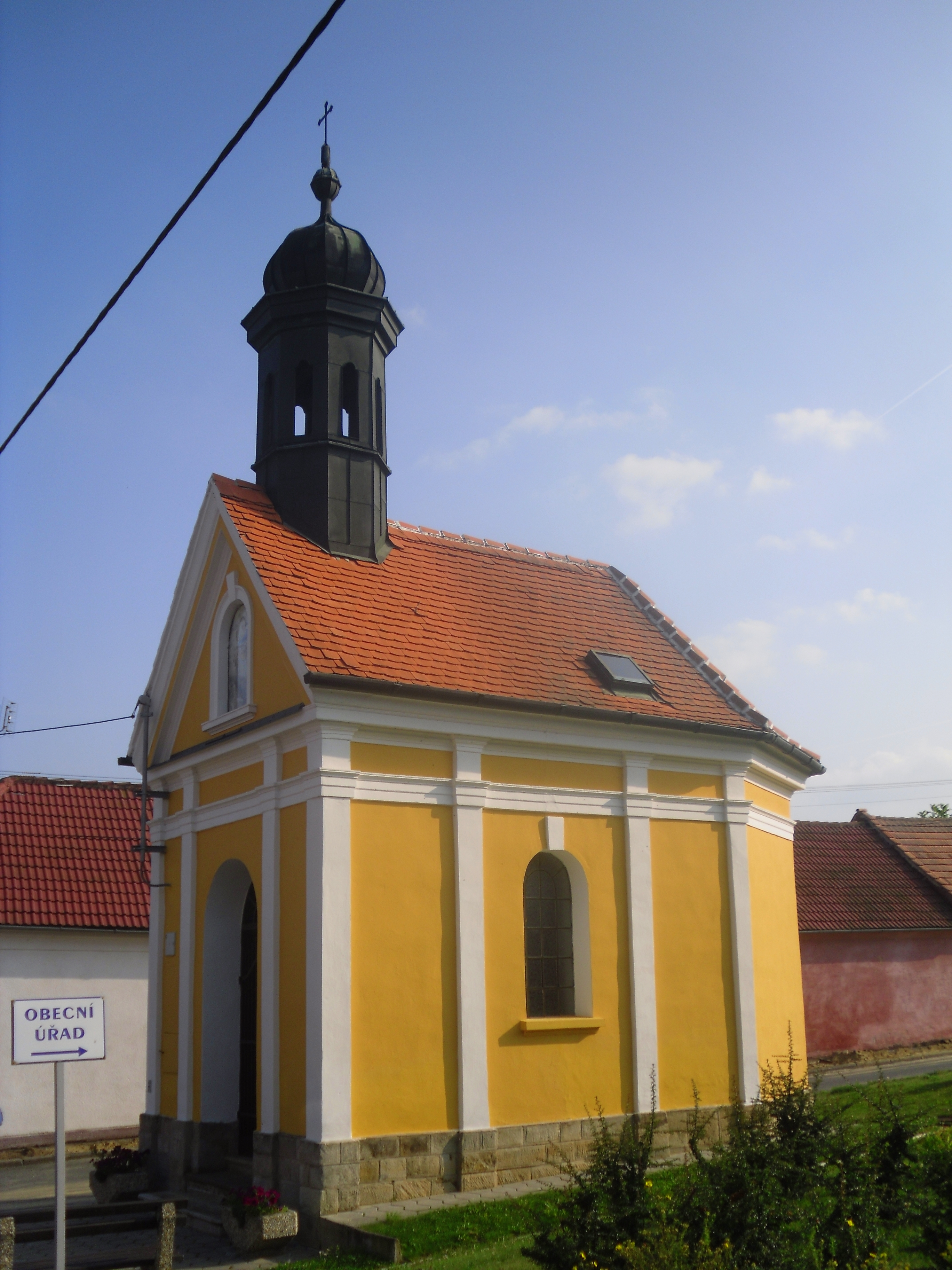 Skalka, Hodonín district, Czech Republic - chapel